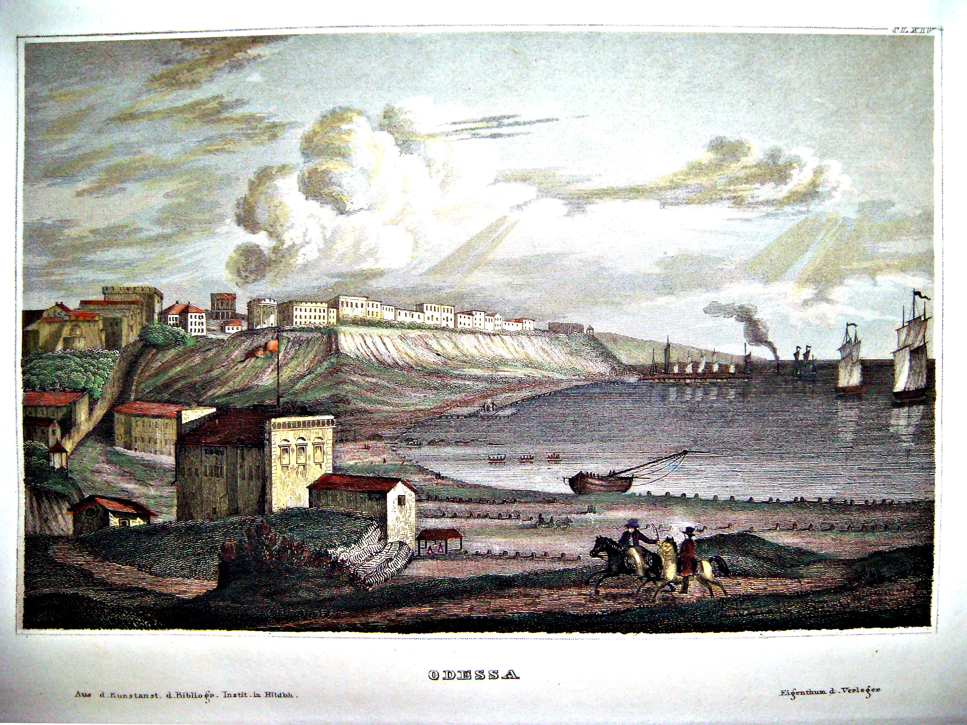 View of Odessa from the headland Peresyp (from German travel book of 1837). Watercoloured lithograph by L. Bokkachini (1830-1840-ies). City History Museum, Odessa.